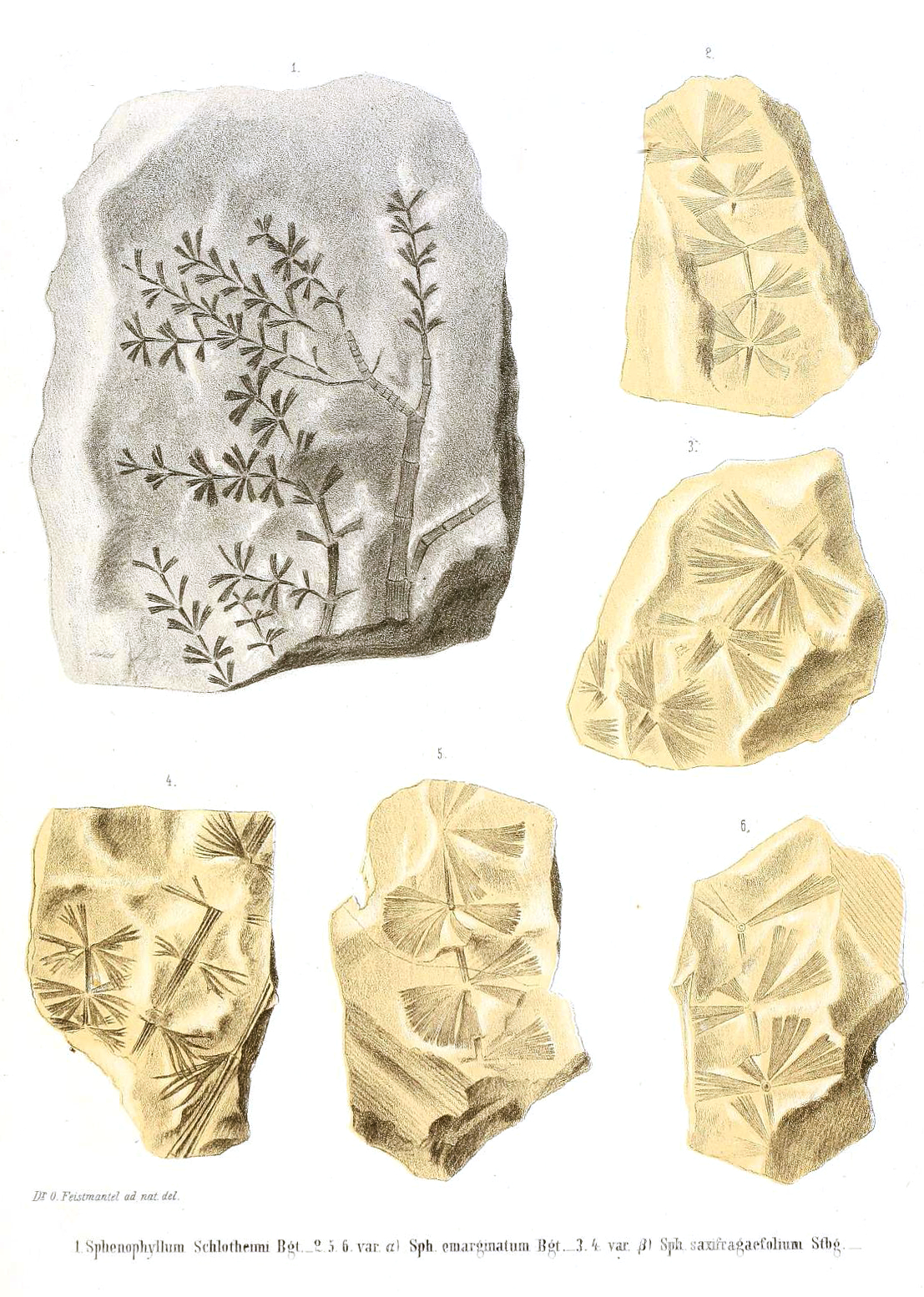 Sphenophyllum sp. fossils drawn by Otokar Feistmantel